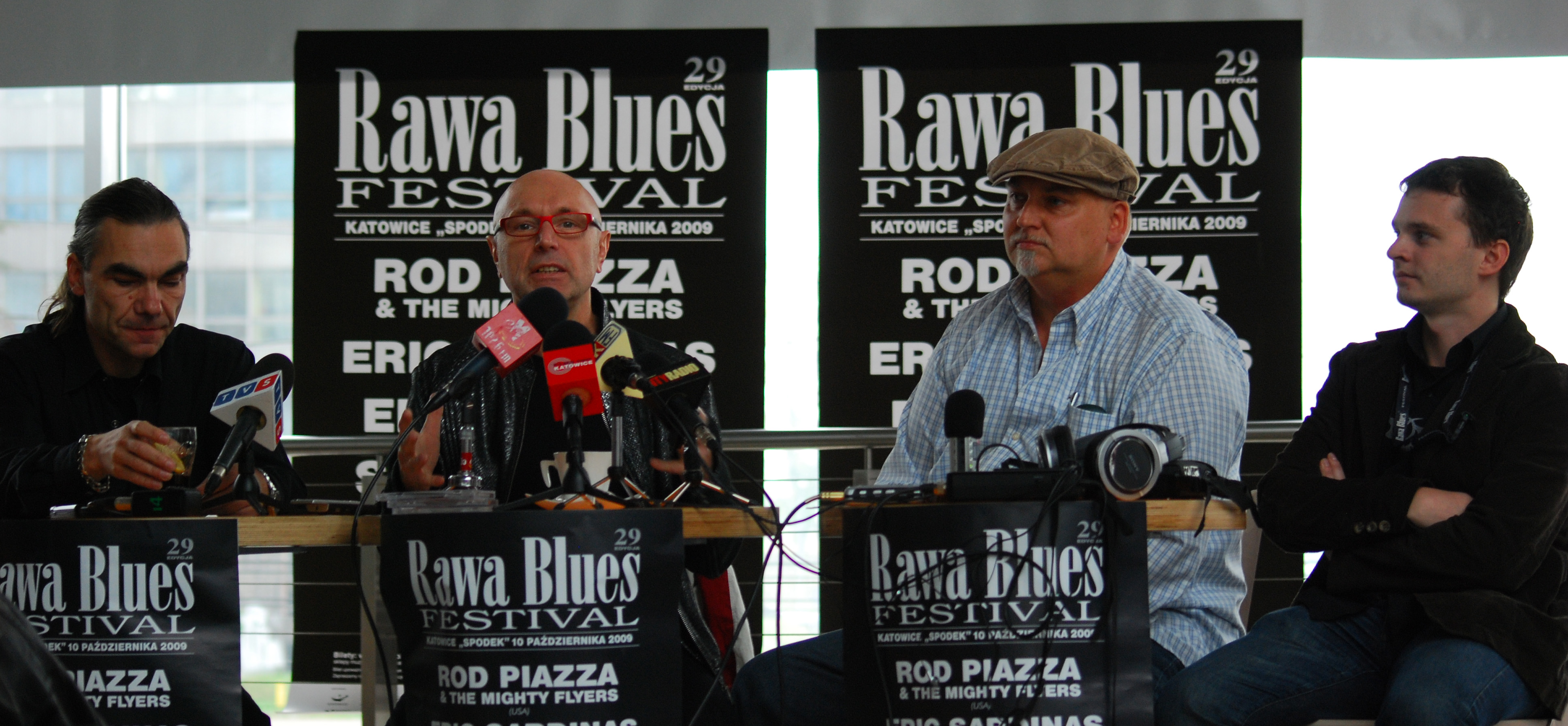 Taking of this photo was in cooperation with Rawa Blues (homepage) Organizatorzy podczas konferencji prasowrj Rawy Blues Festival